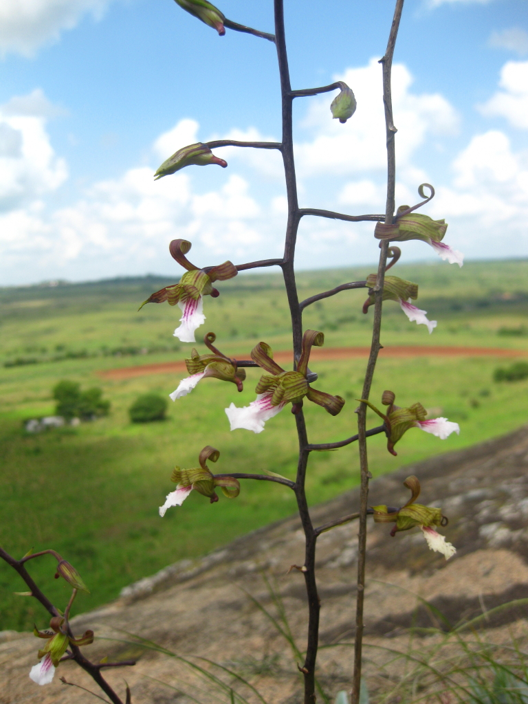 Mount Chizui, close to Chimoio town, with Eulophia petersii.